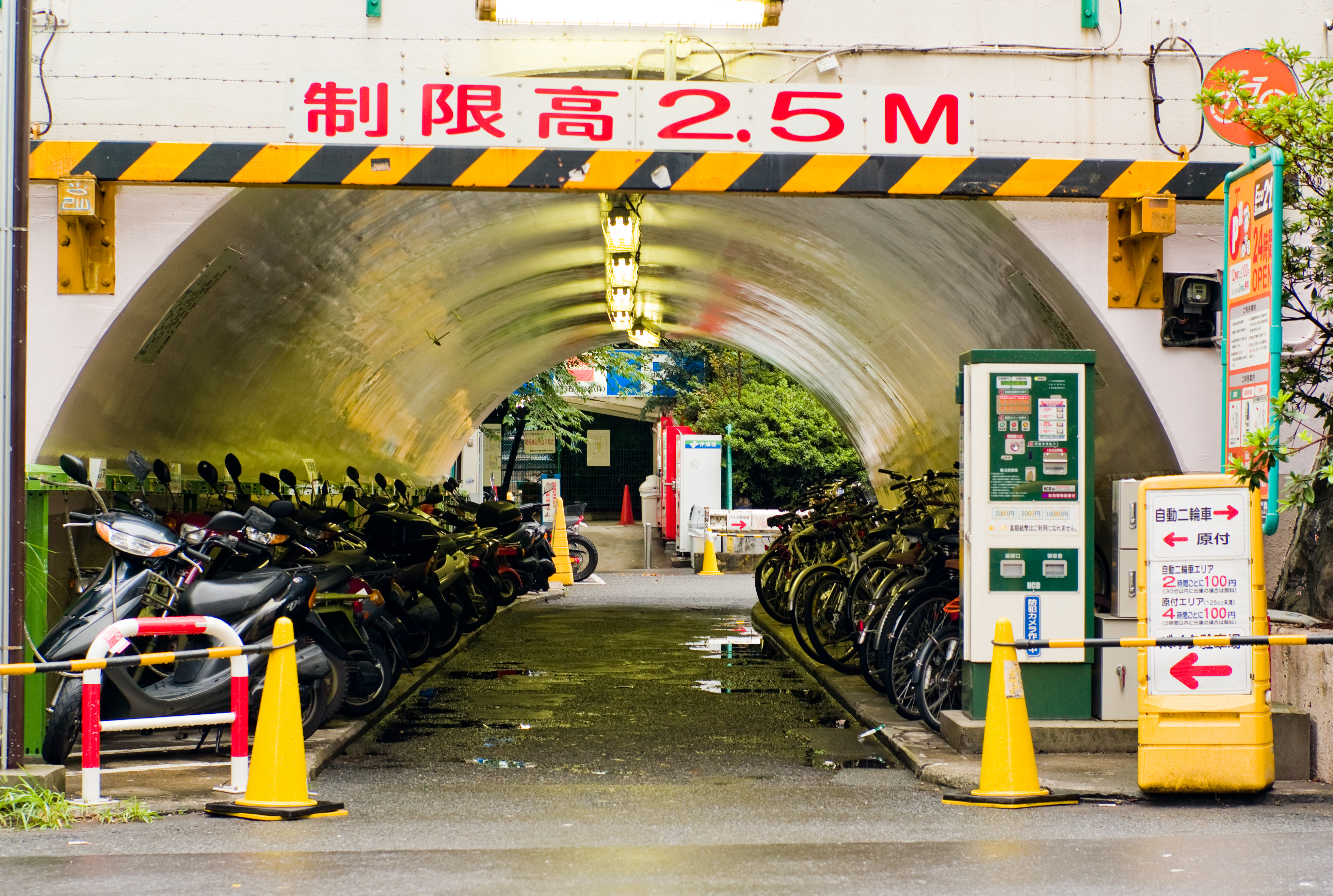 They've converted the tunnel near Miyashita Koen in Shibuya to a paid bike parking lot. There's a sleepy looking guard with a pipe walking around. I guess that's what you're paying for.